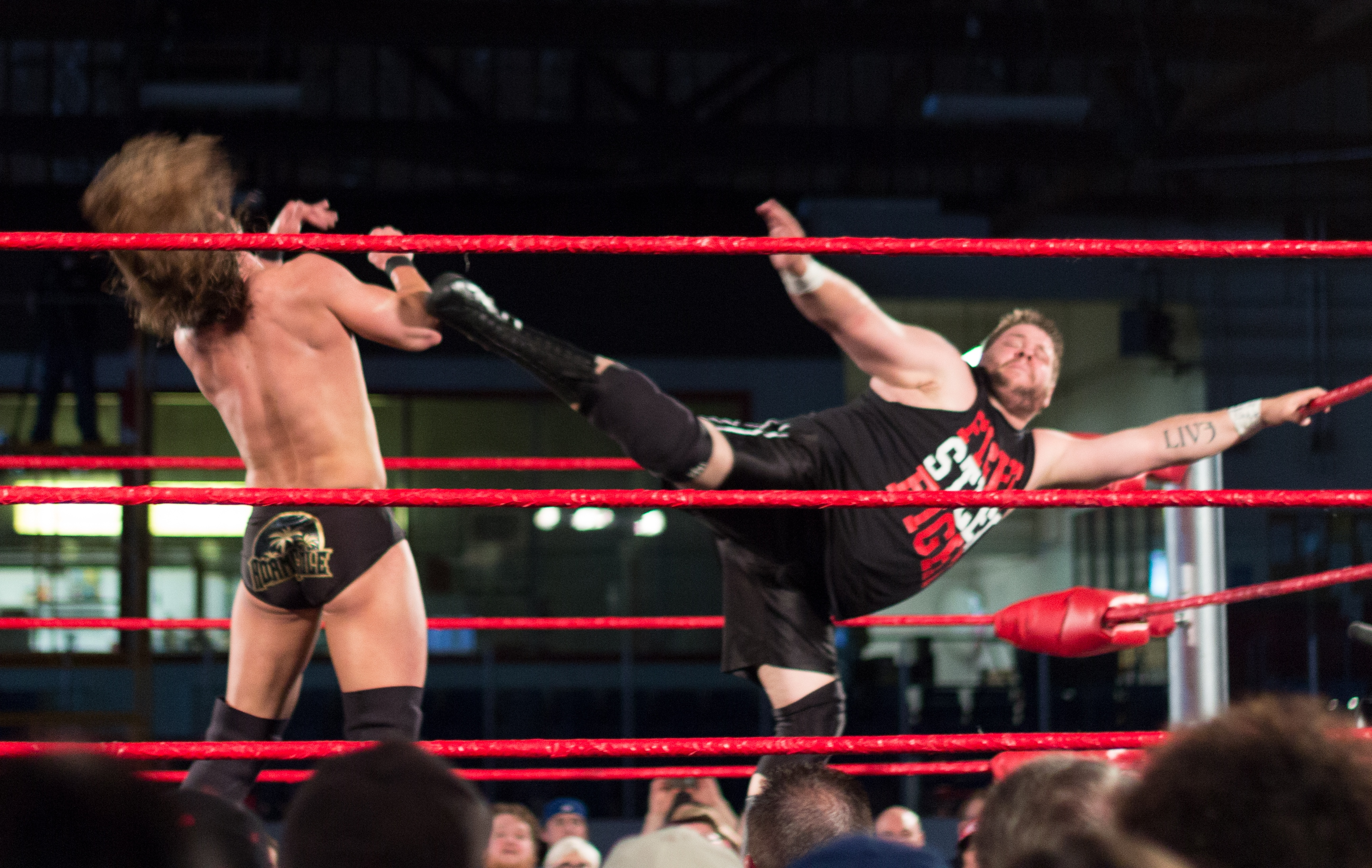 Kevin Steen hitting Adam Cole with a superkick at the Ring of Honor tapings held at the Ted Reeve Arena in Toronto.